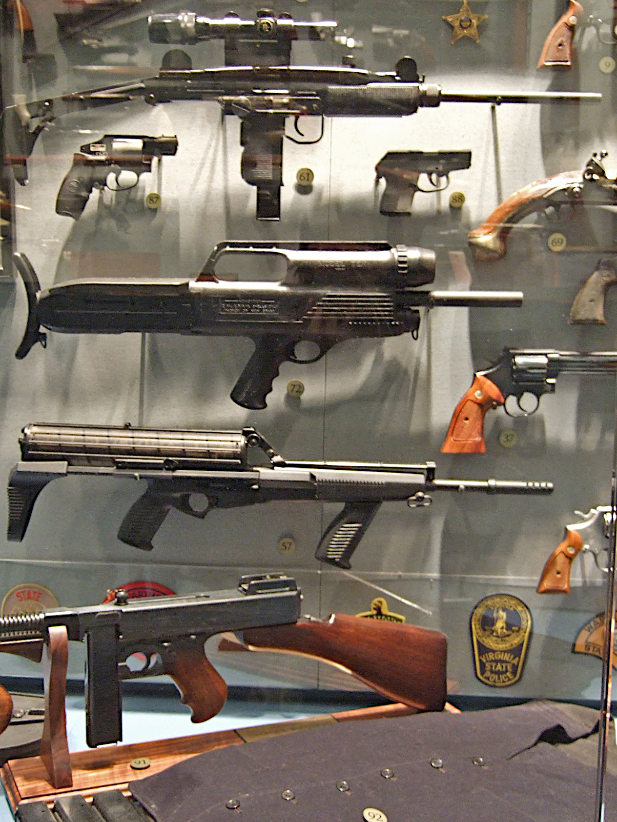 Firaearms. (61) Uzi Carbine, (72) High Standard Model 10, (57) Calico